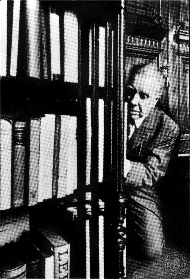 Argentine writer Jorge Luis Borges photographed at the National Library. He directed the library from 1955 to 1973.